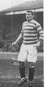 picture of a match between Celtic FC and Hearts